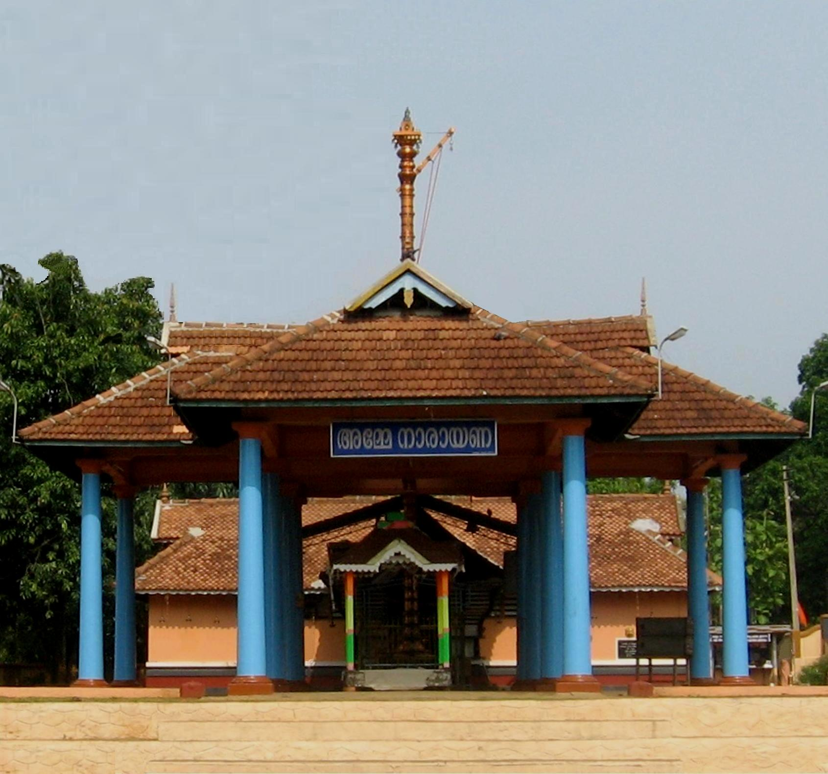 Ithithanam Elankavu Devi Temple, Changanasserry